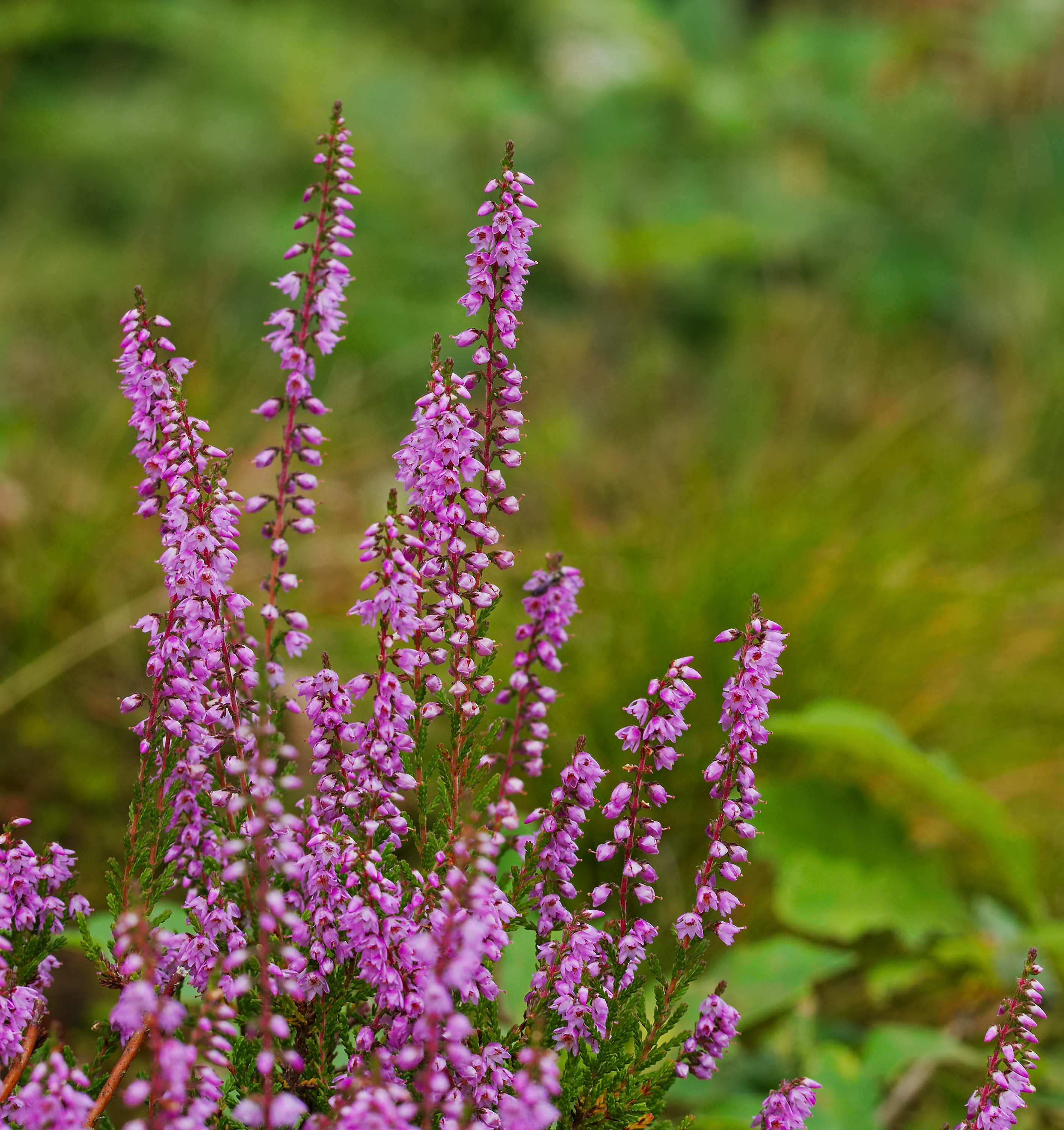 Common heather - Calluna vulgaris. Taken in Gorxheimertal, Hesse, Germany.